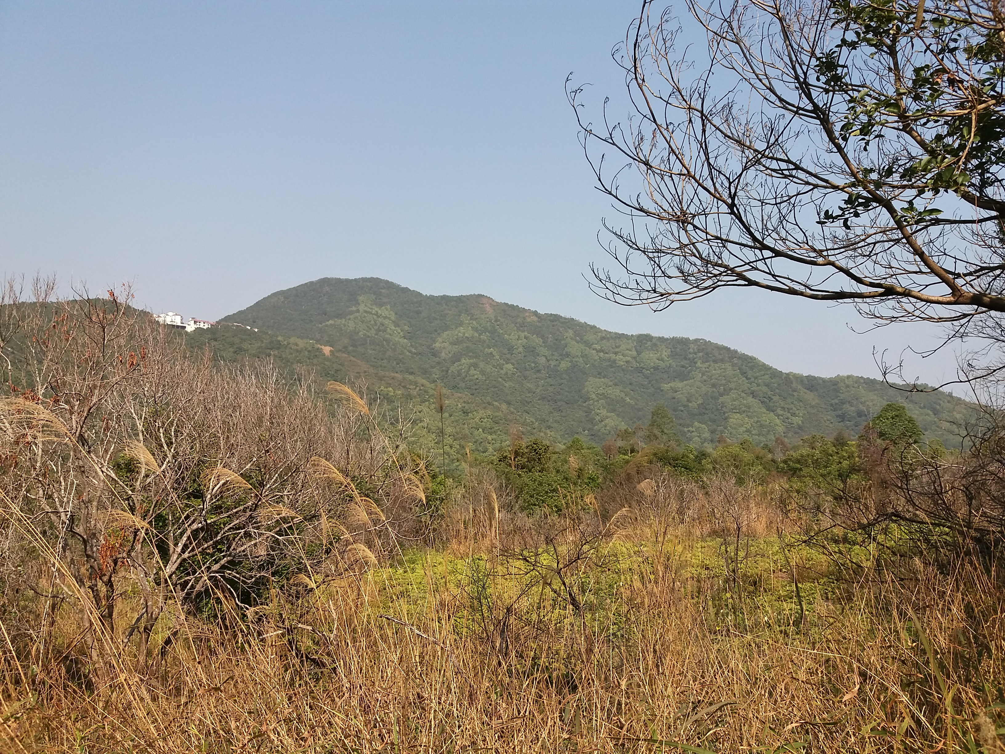 Western slope of Razor Hill, from Autau / Tsenglanshue 中文（香港）: 由井欄樹澳頭村望向鷓鴣山西坡